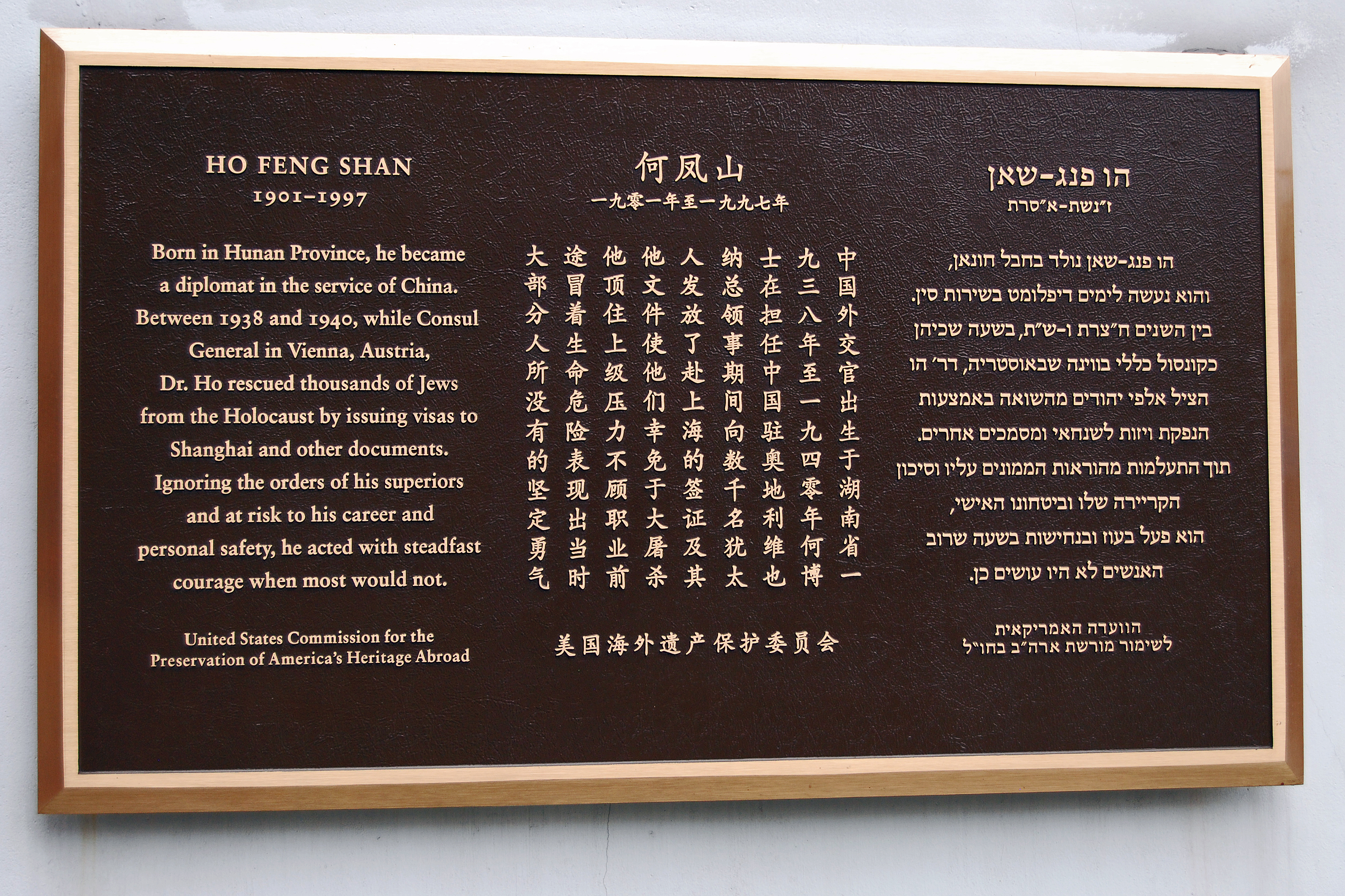 A plaque erected at the Shanghai Jewish Refugees Museum and Ohel Moishe Synagogue in China in honor of the late Chinese diplomat Ho Feng Shan (1901-1997) who saved thousands of Jews between 1938 to 1940 while serving as Consul General in Vienna, Austria. He issued them travel visas to Shanghai, China, without permission from his government.